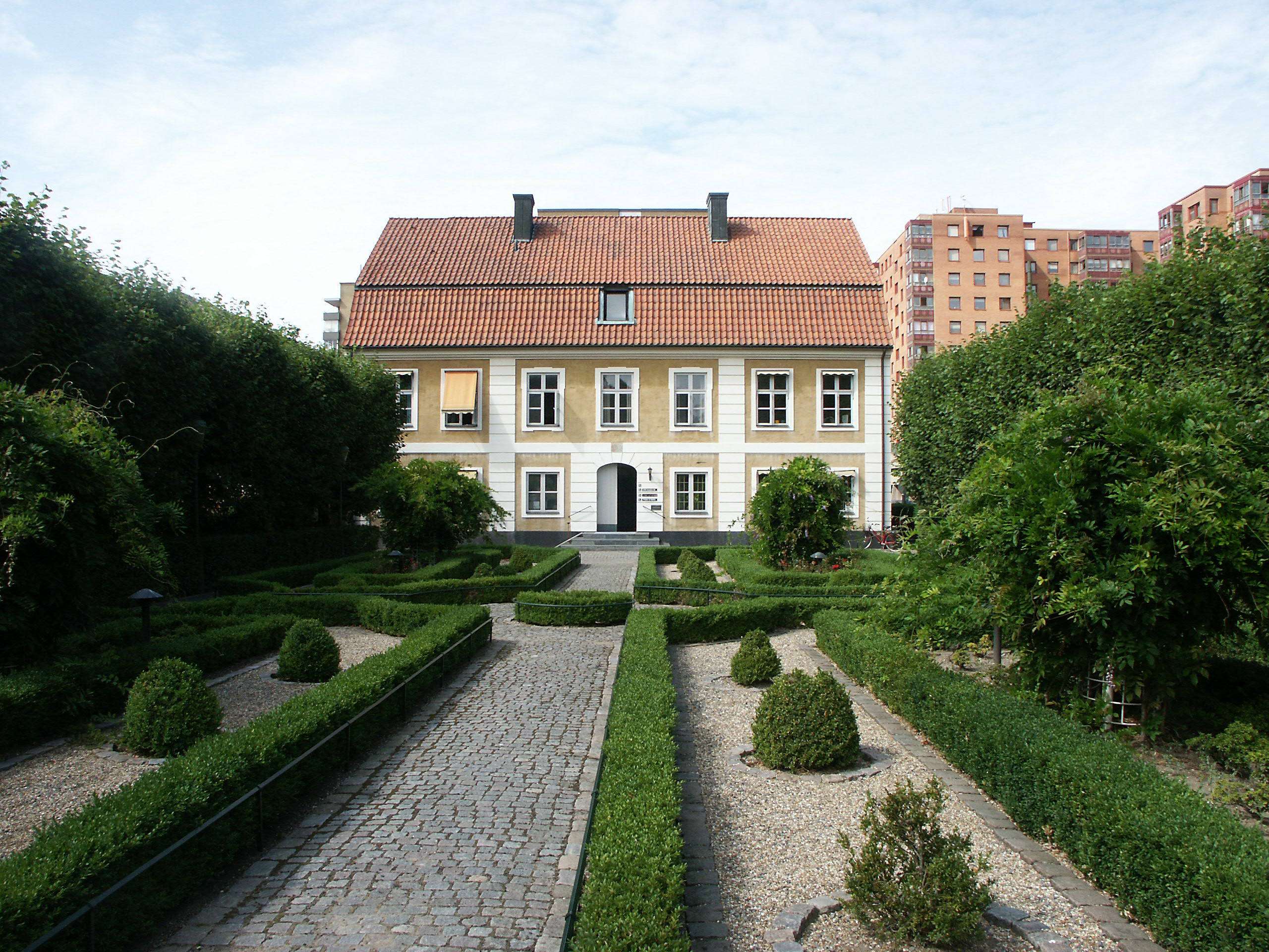 Möllevångsgården in Malmö Sweden